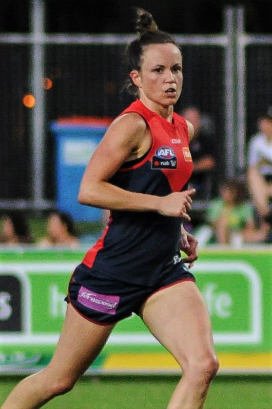 Daisy Pearce during the AFL Women's round six match between Adelaide and Melbourne on 11 March 2017 at TIO Stadium in Darwin, Northern Territory